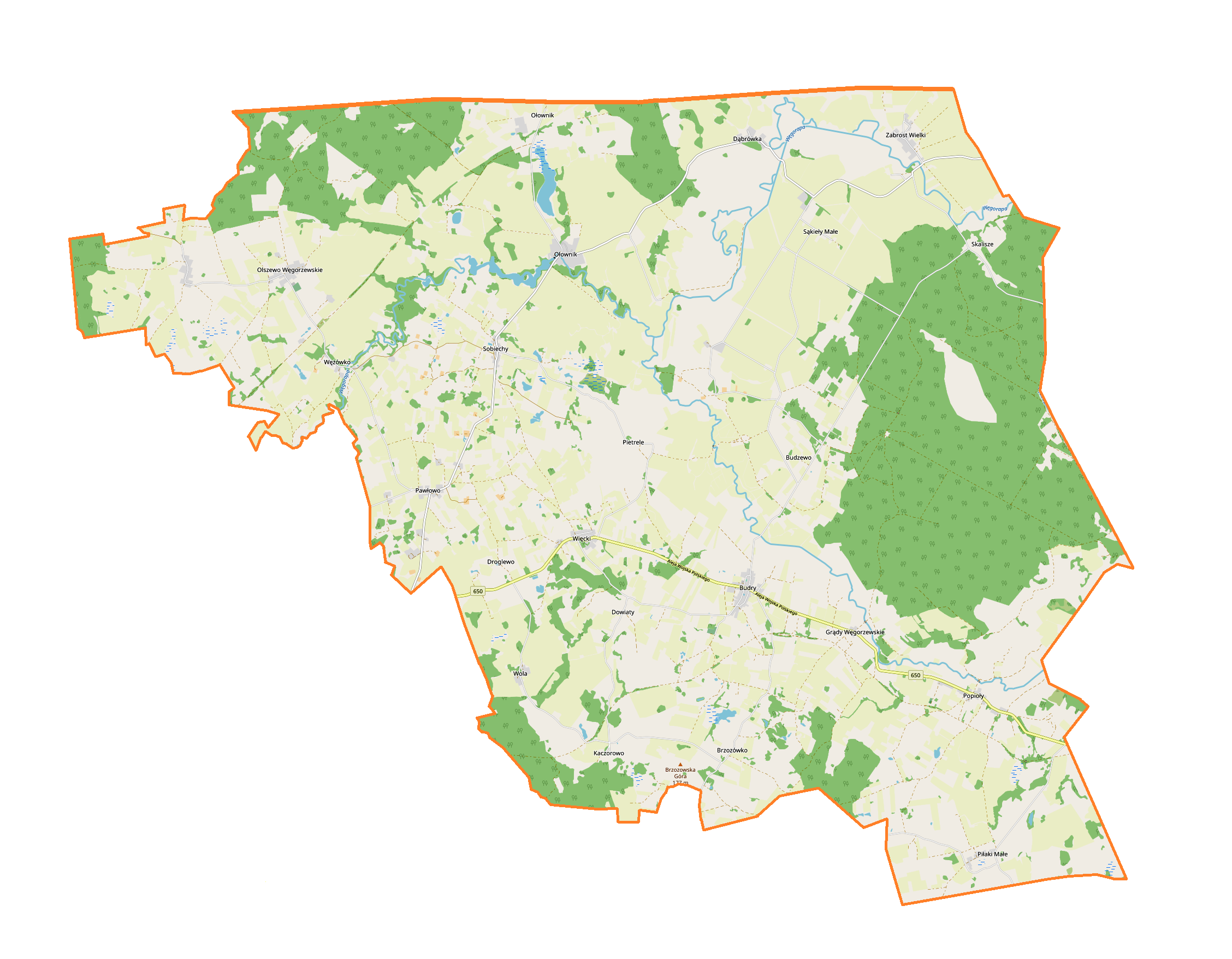 Location map